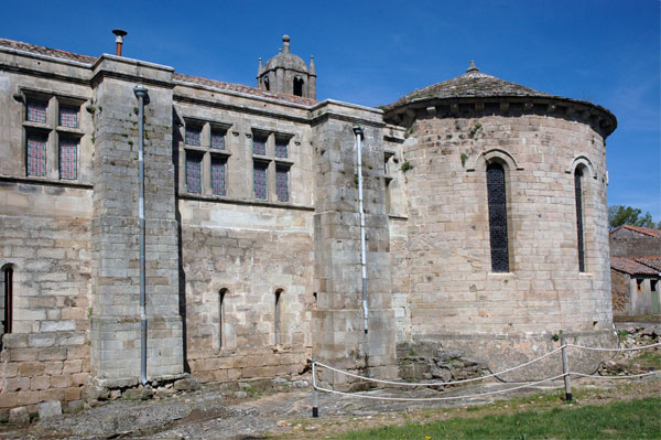 Saint-Michel de Grandmont priory. France